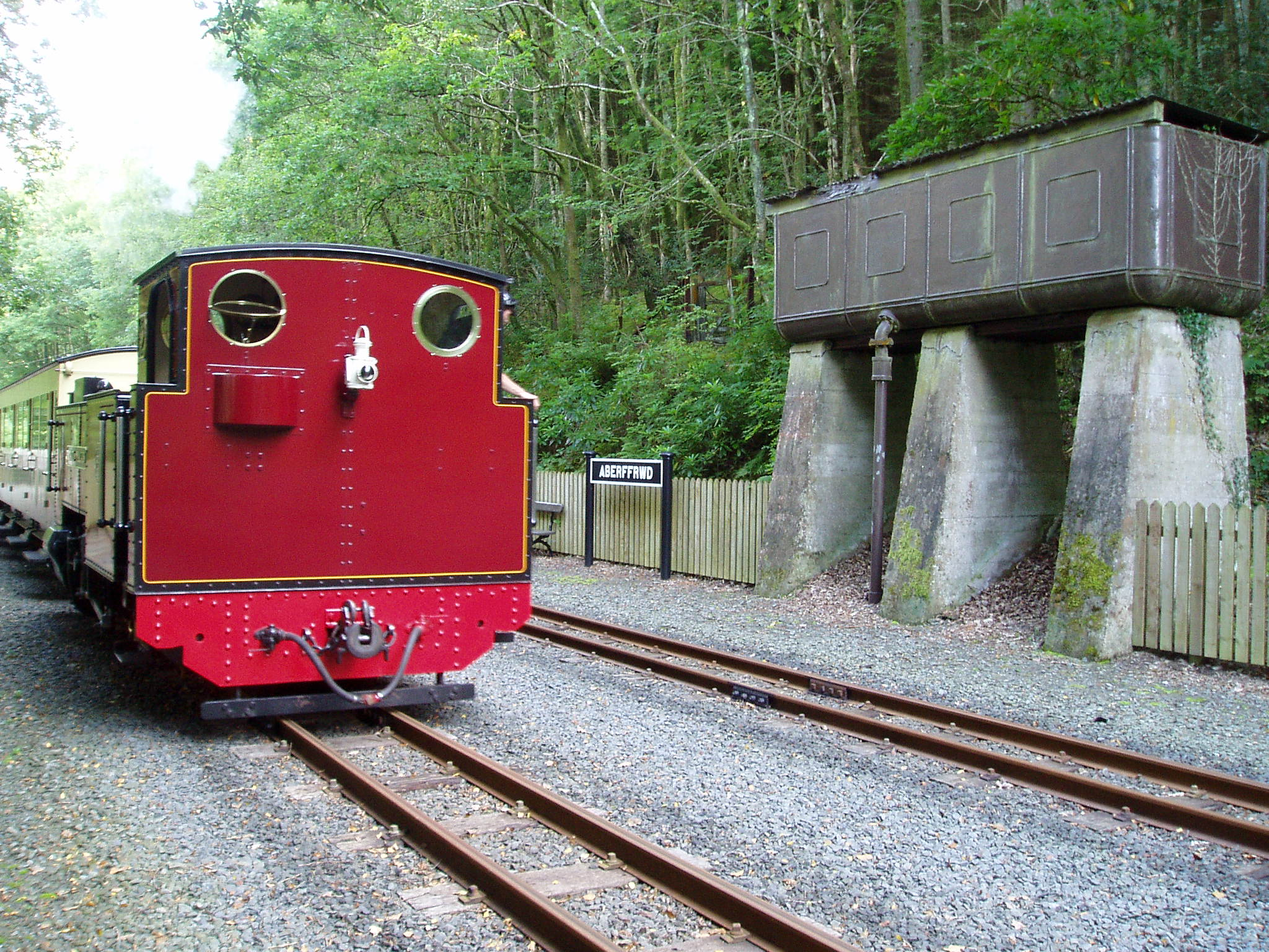 An afternoon arrival into Aberffrwd Station from Pontarfynach (Devil's Bridge, Ceredigion).